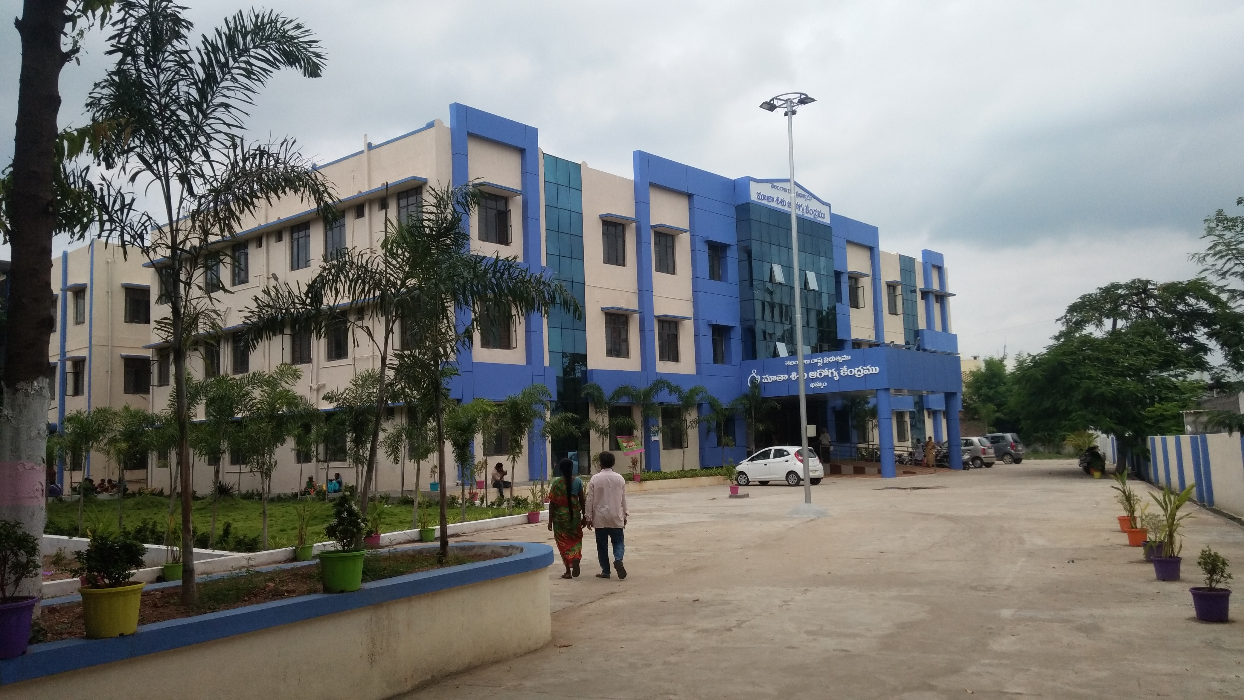 DISTRICT HEAD HOSPITAL KHAMMAM SPECIALLY FOR CHILDREN AND PREGNECY CASE, IT IS LOKATED IN KHAMMAM FROUNT OF COLLECTOR OFFICE. KHAMMAM IS A DISTRICT IN TELANGANA STATE, INDIA.